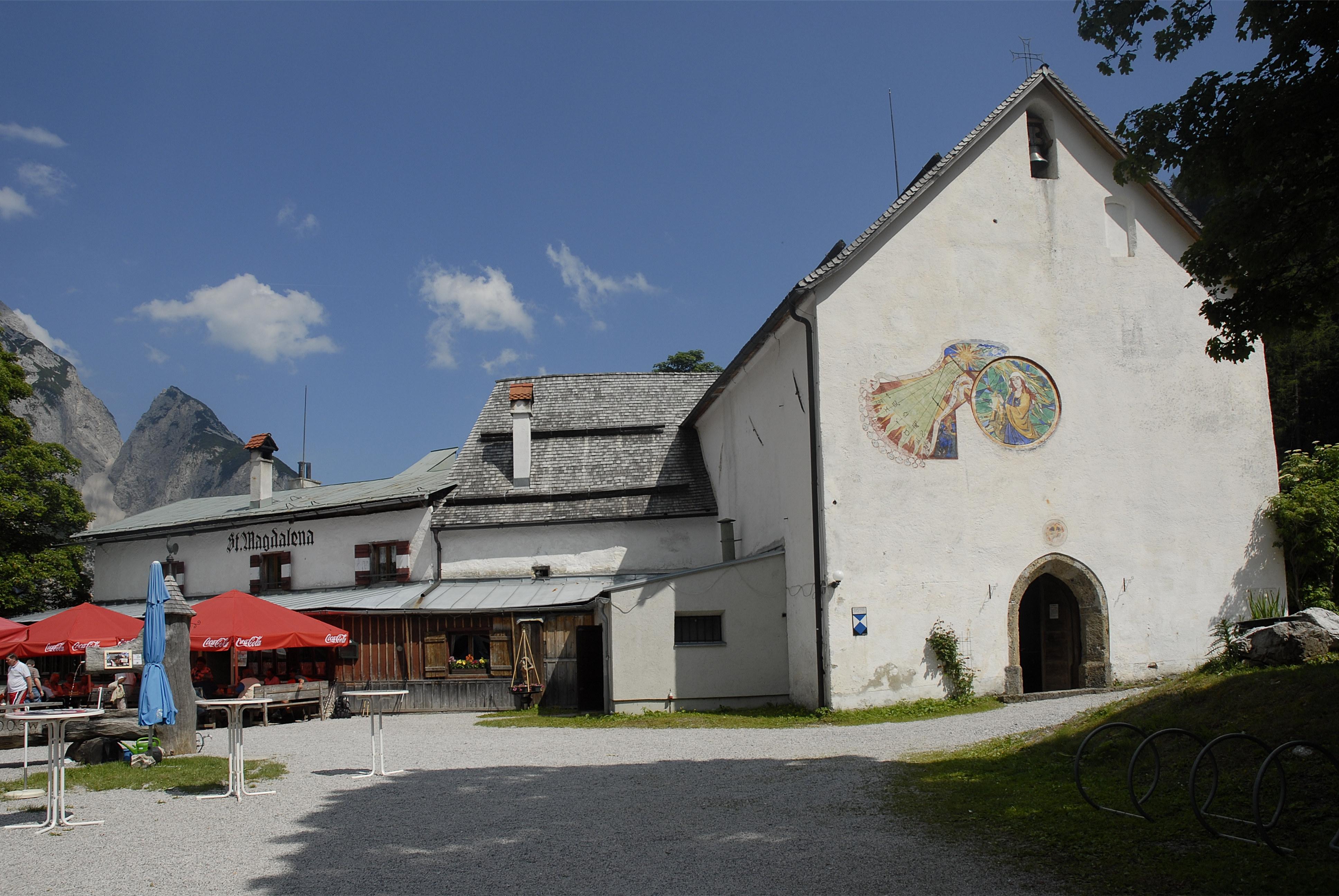 Sankt Magdalena in the Halltal, Tyrol. In the background the Hüttenspitze